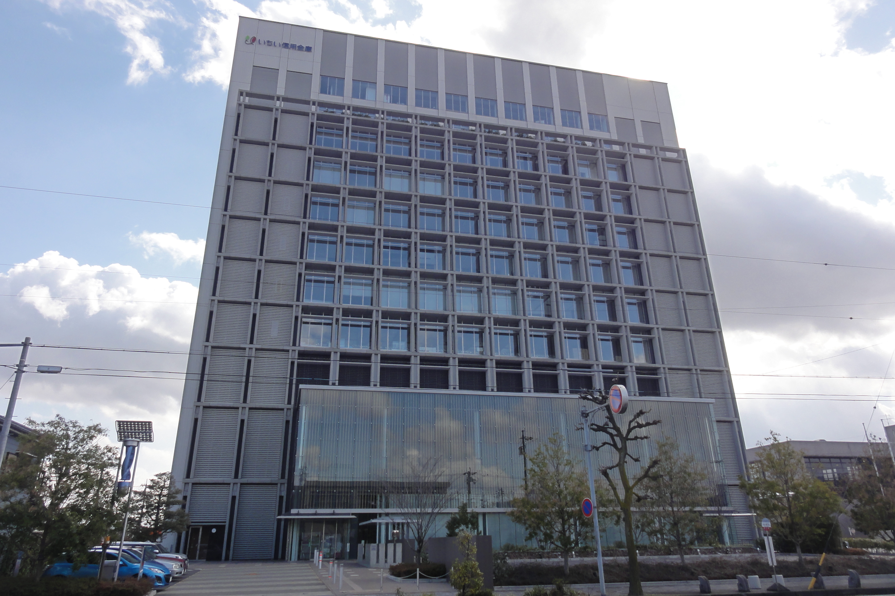 Ichii shinkin bank(Head office),Aichi prefecture, Japan